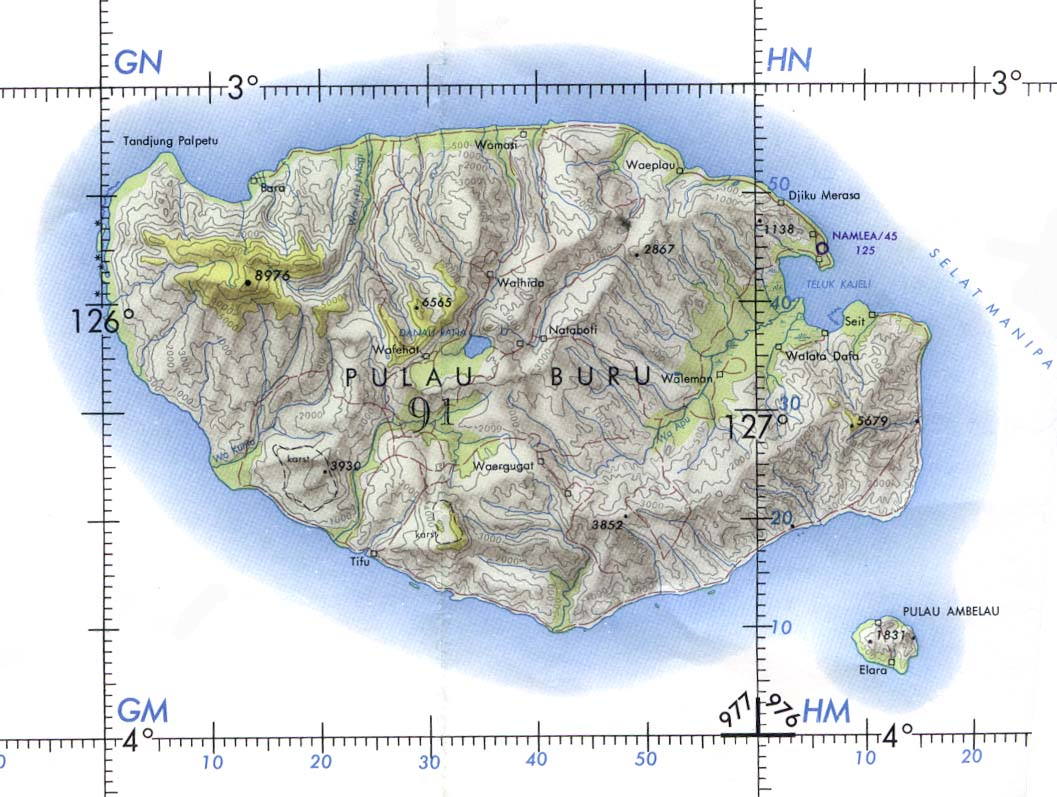 Buru Island (Operational Navigation Chart) original scale 1:1,000,000. Portion of Defense Mapping Agency ONC M-12 1967 (152K) Not for navigational use This image is a copy or a derivative work of from the map collection of the Perry–Castañeda Library (PCL) of the University of Texas at Austin. This tag does not indicate the copyright status of the attached work. A normal copyright tag is still required. See Commons:Licensing for more information.